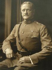 photo officelle du general Pershing